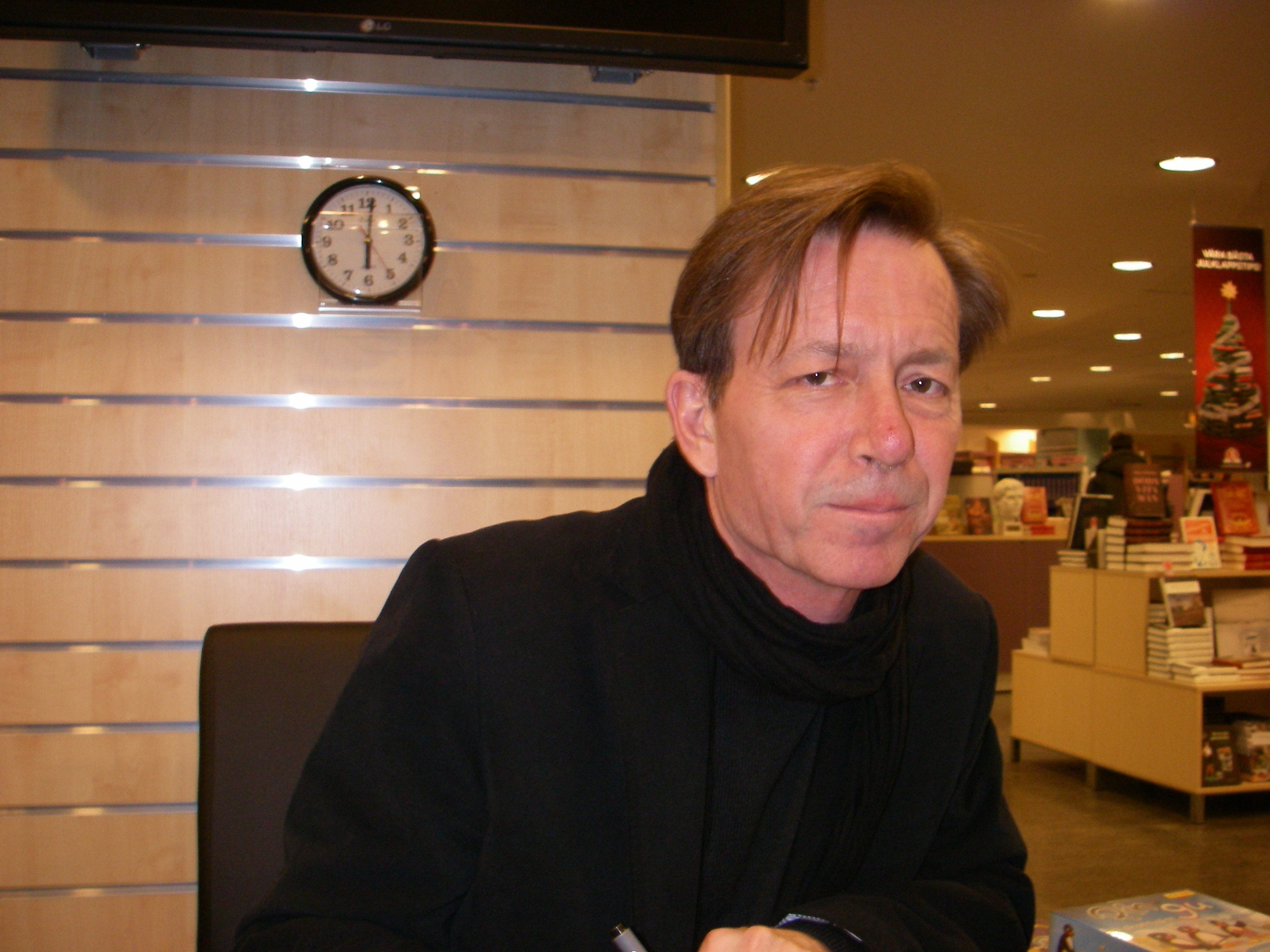 Swedish writer Steve Sem-Sandberg